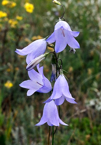 Harebell (Campanula rotundifolia) is a common inhabitant of montane meadows and forests, and blooms virtually the entire summer. It is often mistakenly referred to as a bluebell, a similar but completely different wildflower. Its blossoms appear singly at the end of a slender stalk. The name itself is something of a curiosity; the most likely explanation is that it is a literal rendition of the Scottish pronunciation of "heather bell;" these plants share the same ecospace as Scottish heather. Ø2004 D. Windrim Captioned As {}